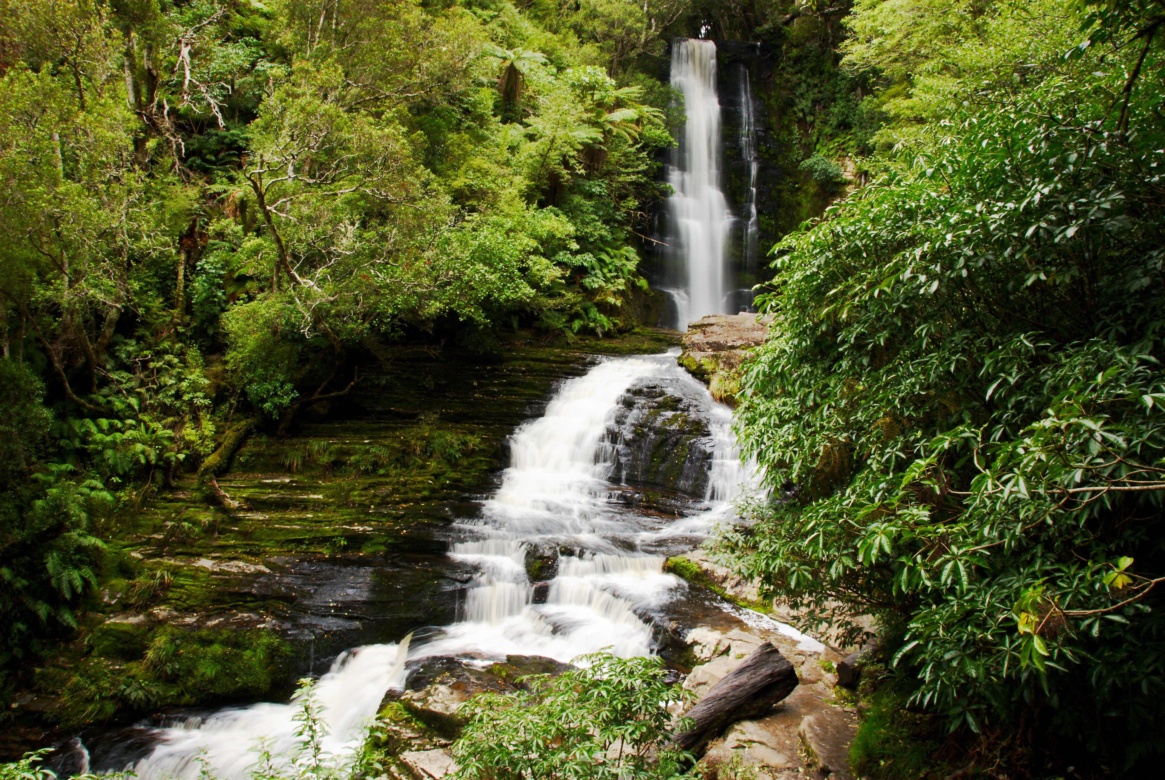 McLean Falls in the Catlins, Southland, New Zealand are probably the most spectacular in the Catlins.[1]